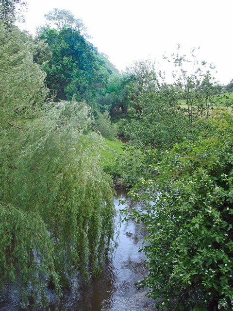 River Wheelock River Wheelock - view upstream from the Middlewich Road (A54) bridge. This is just upstream of the confluence of the River Wheelock with the River Dane. Middlewich has developed between the two rivers. The Wheelock drains from a series of small brooks and flashes to the NE of Crewe - modest companion to the Dane, which has much more dramatic origins high in the Pennine hills. At this point the Wheelock forms the boundary between the parishes of Stanthorne and Middlewich - and thus between the boroughs of Vale Royal and Congleton.